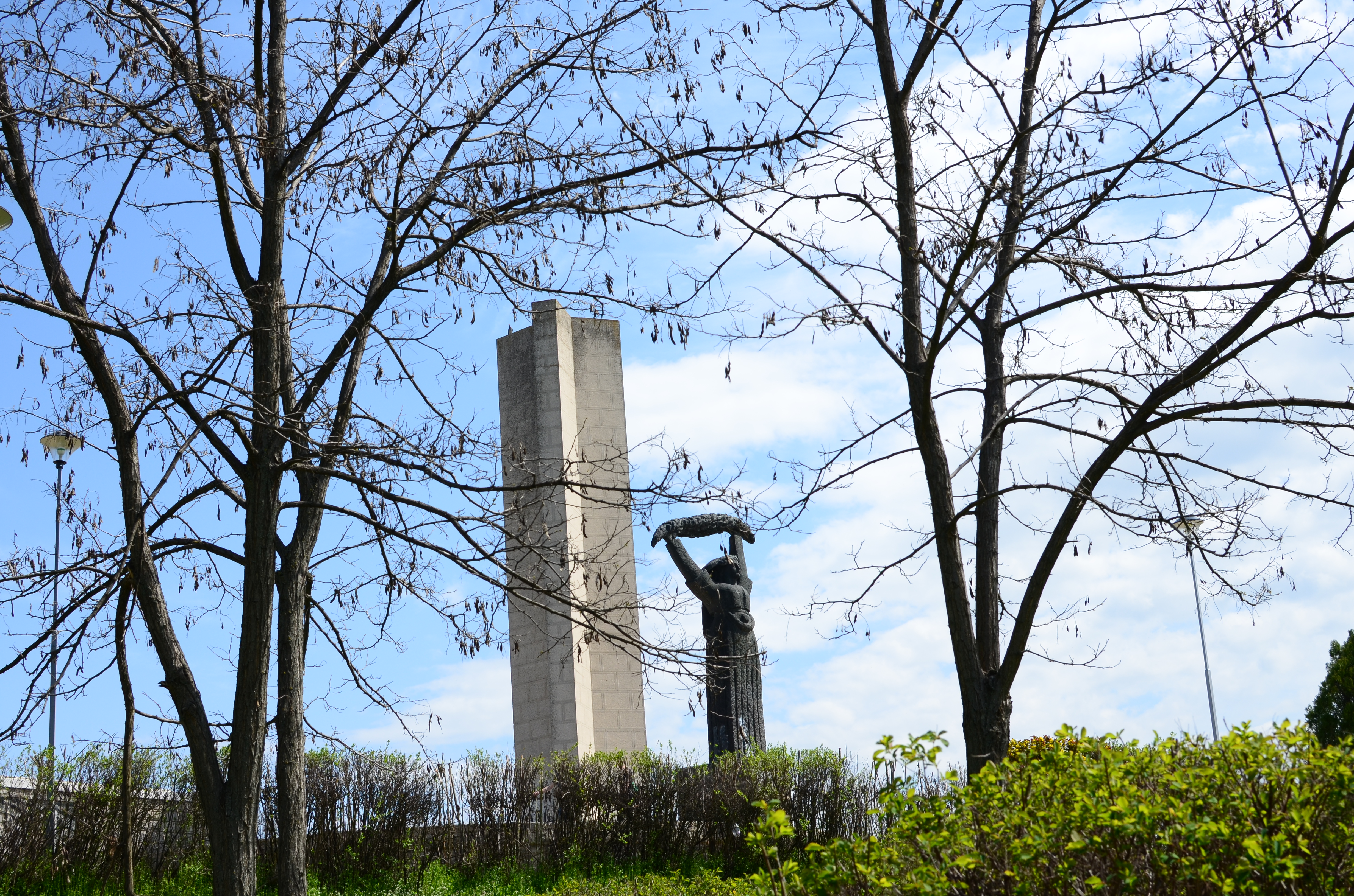 Monument of the people's liberation struggle in Kumanovo, Macedonia, Second World War